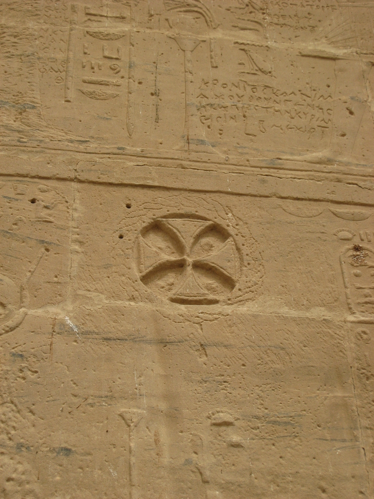 They seek him here, they seek him there; those Christians seek him everywhere...